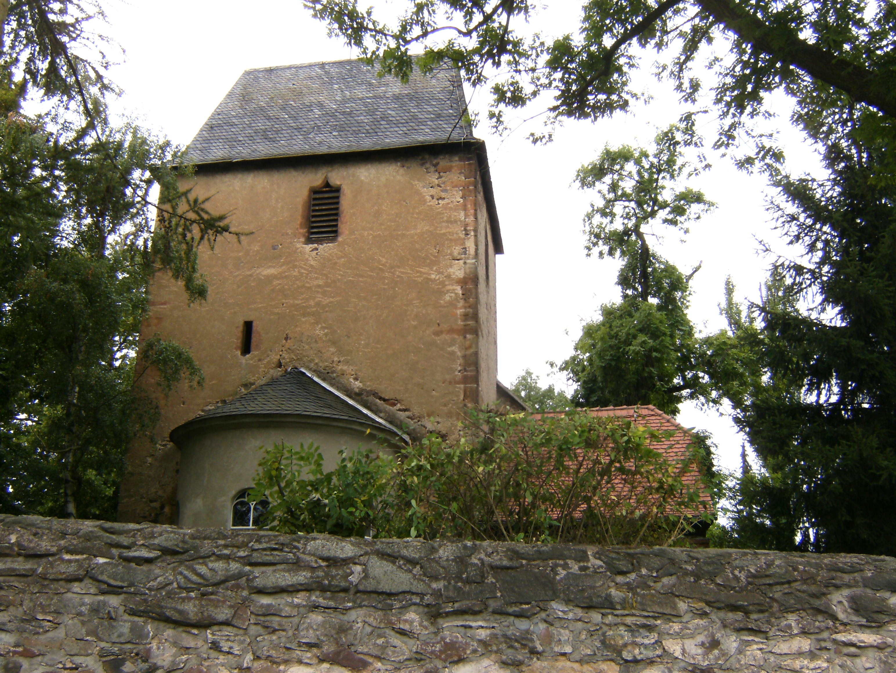 Taubenpreskeln, village church.